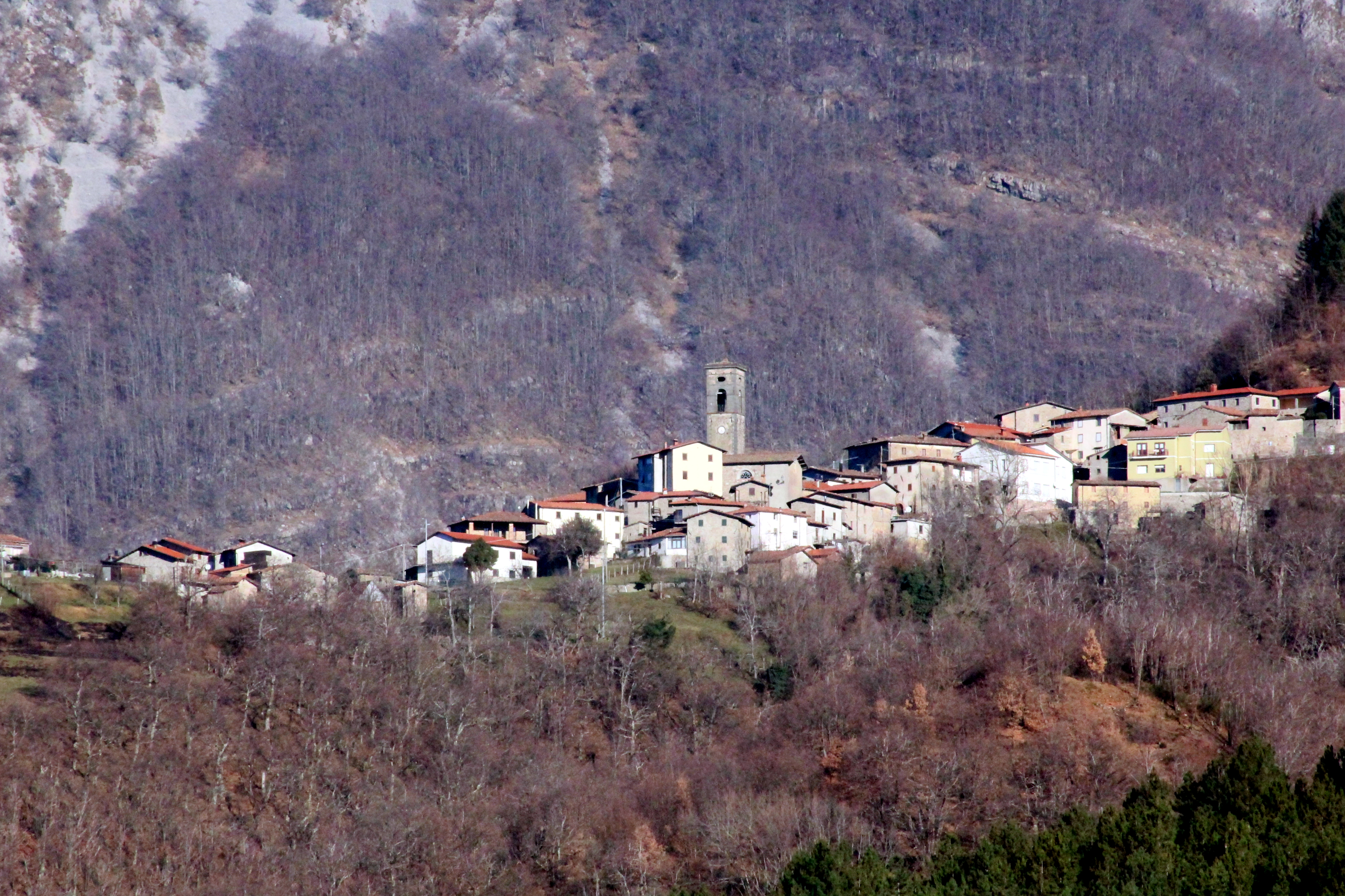 Panorama of Chiozza, hamlet of Castiglione di Garfagnana, Province of Lucca, Tuscany, Italy